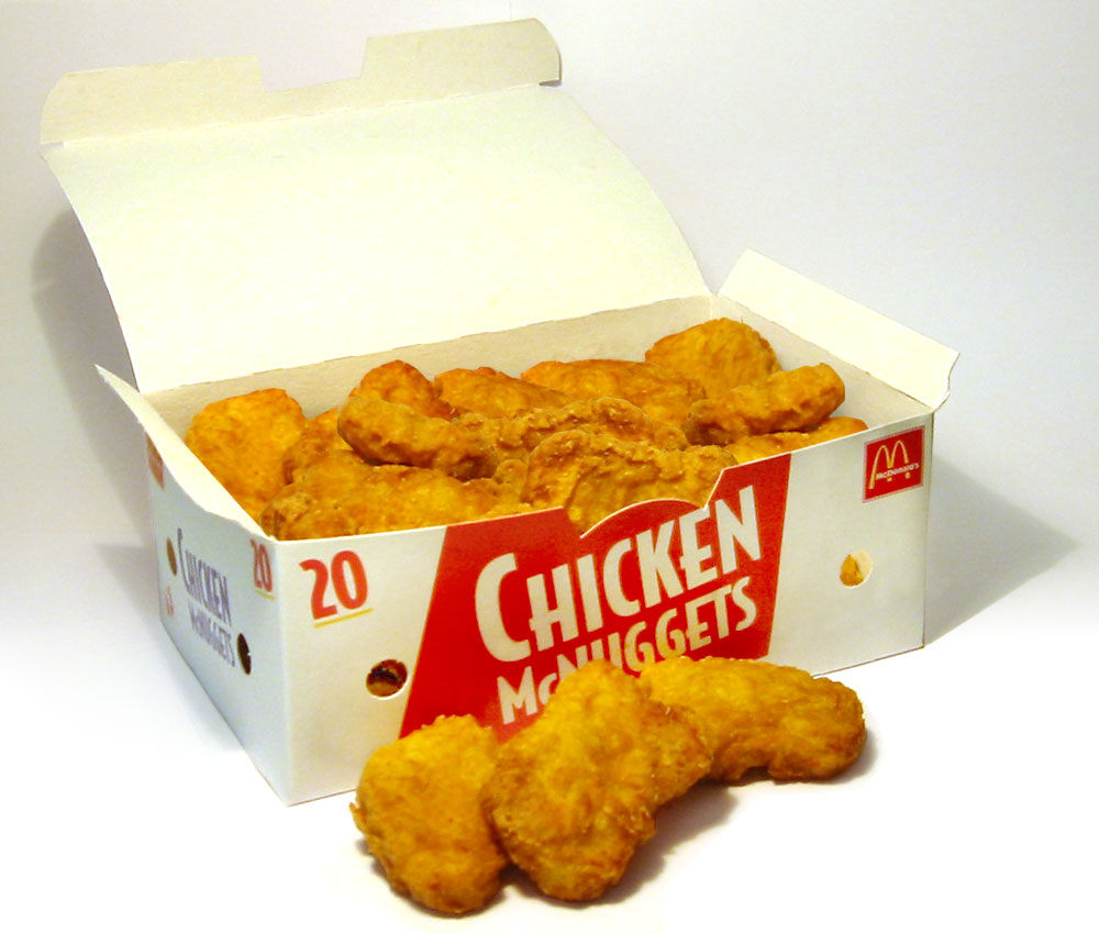 Photo of a 20-piece box of McDonald's Chicken McNuggets.